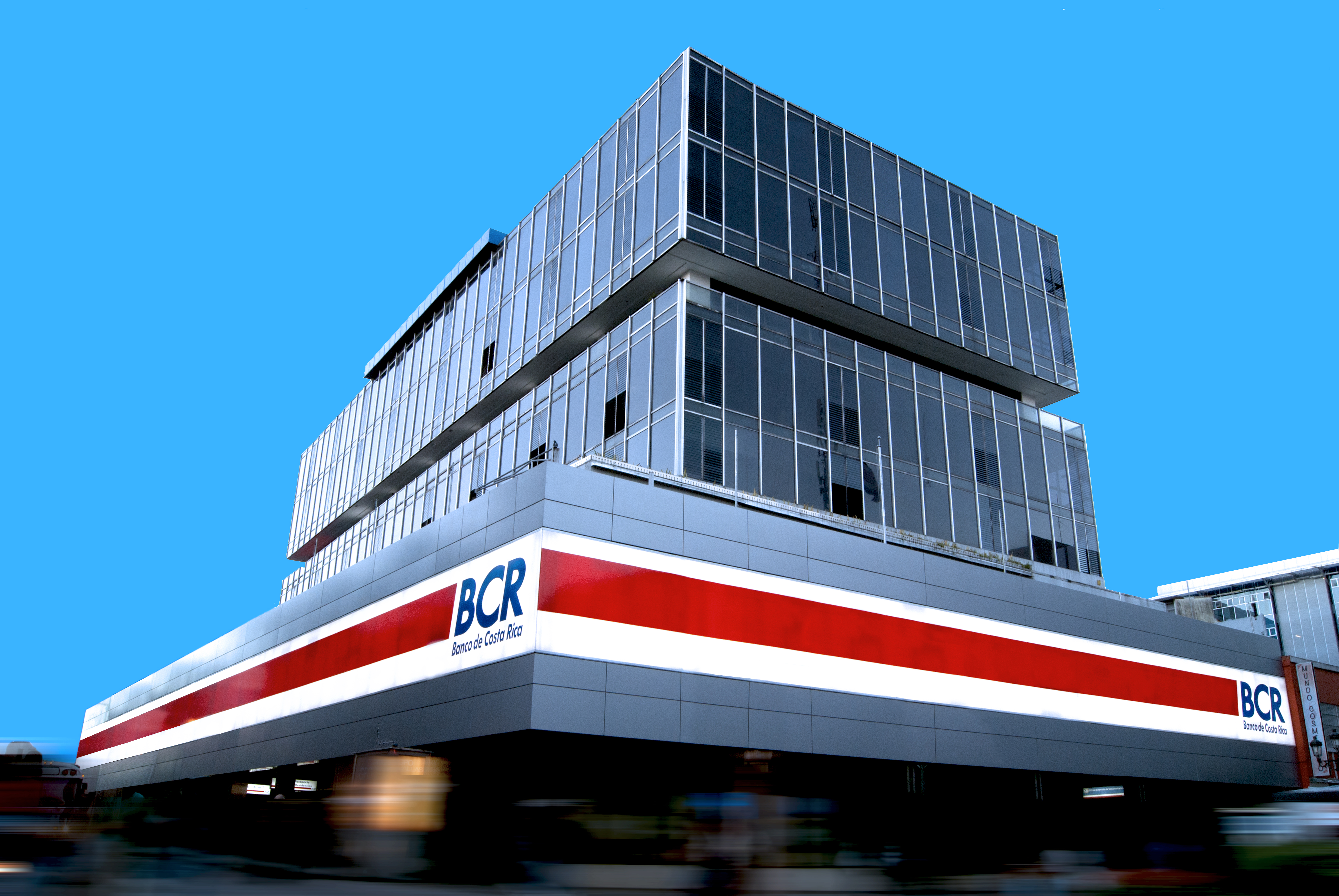 Banco de Costa Rica HQ-North side view